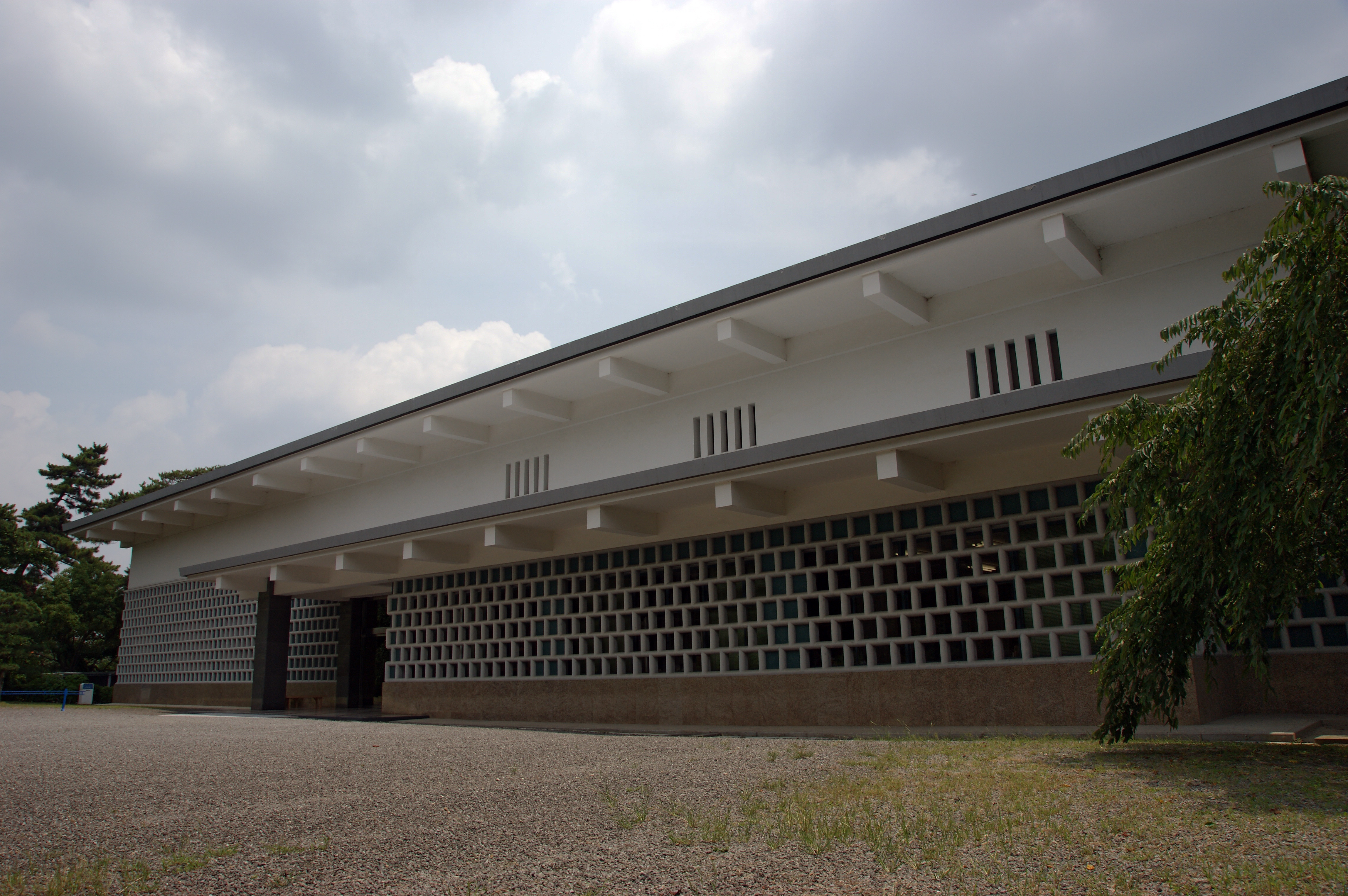 The Museum Yamato Bunka Kan in Nara, Nara prefecture, Japan